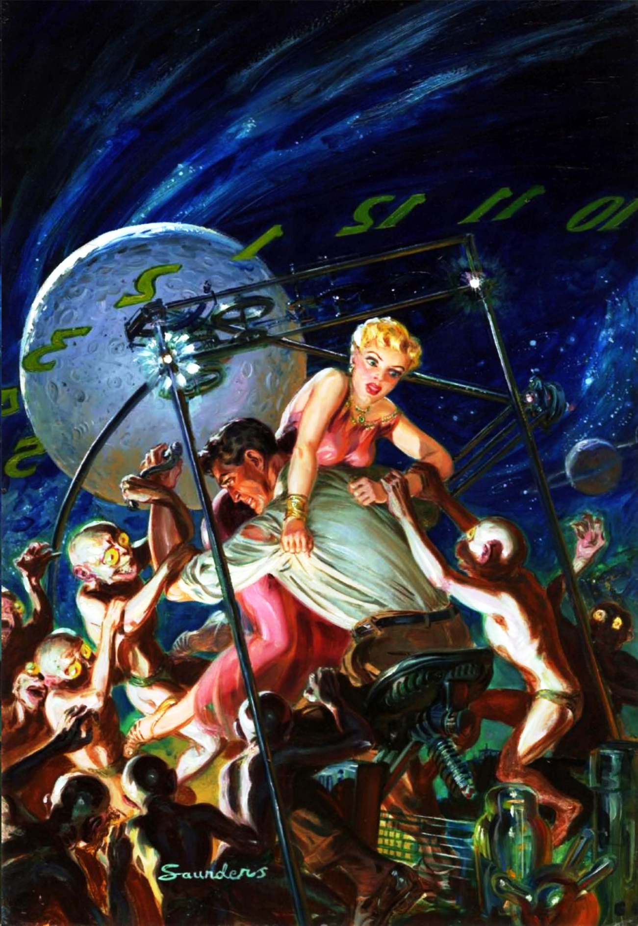 Cover illustrations by Norman Saunders from H.G. Wells' novel "The Time Machine", published in the magazine Famous Fantastic Mysteries; August 1950.